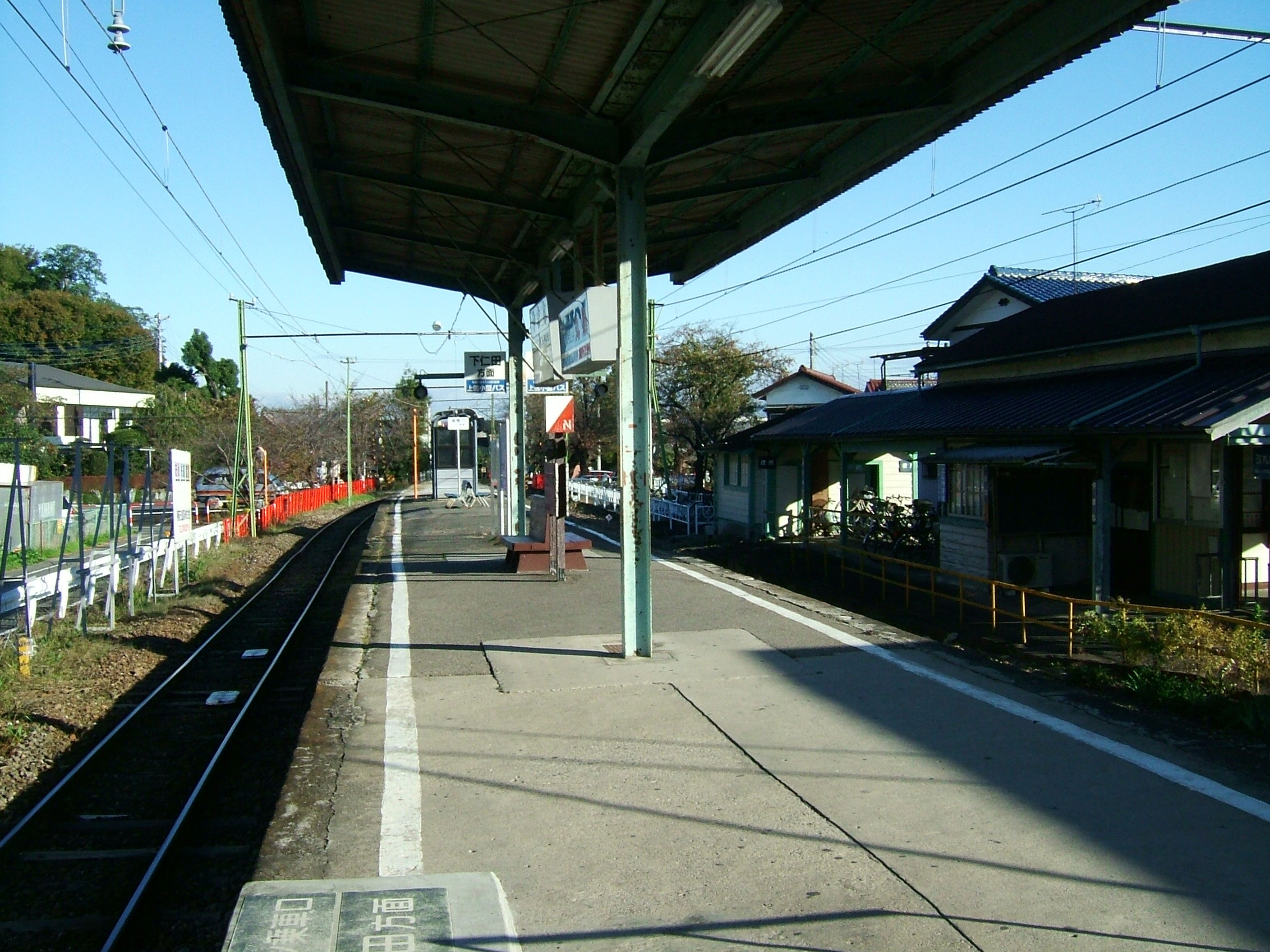 Yamana Station platform (Jōshin Dentetsu Jōshin Line)